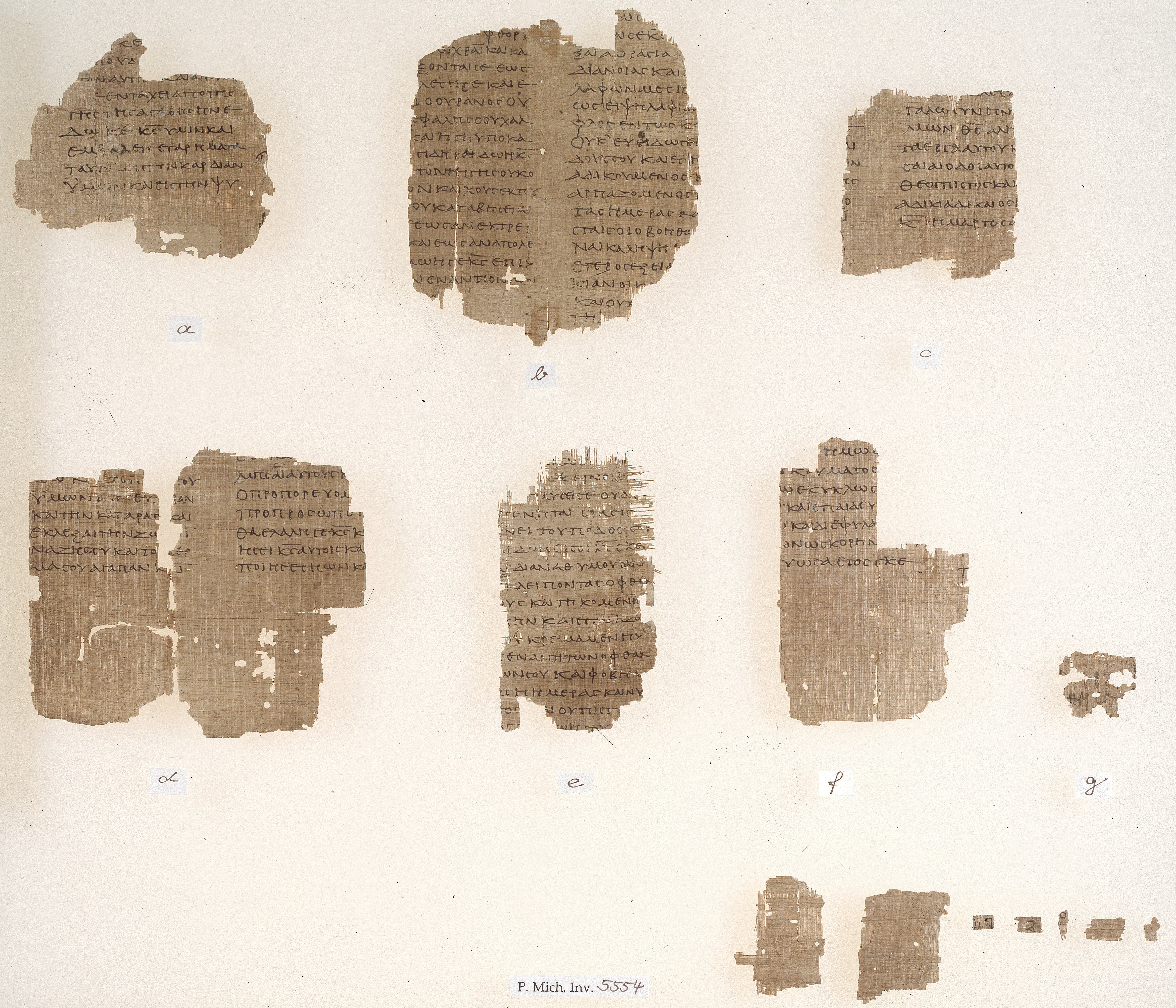 The front side of P.Mich.inv. 5554, showing fragment of a Greek papyrus manuscript containing portions of Deuteronomy. Most likely originated in Egypt, currently located at